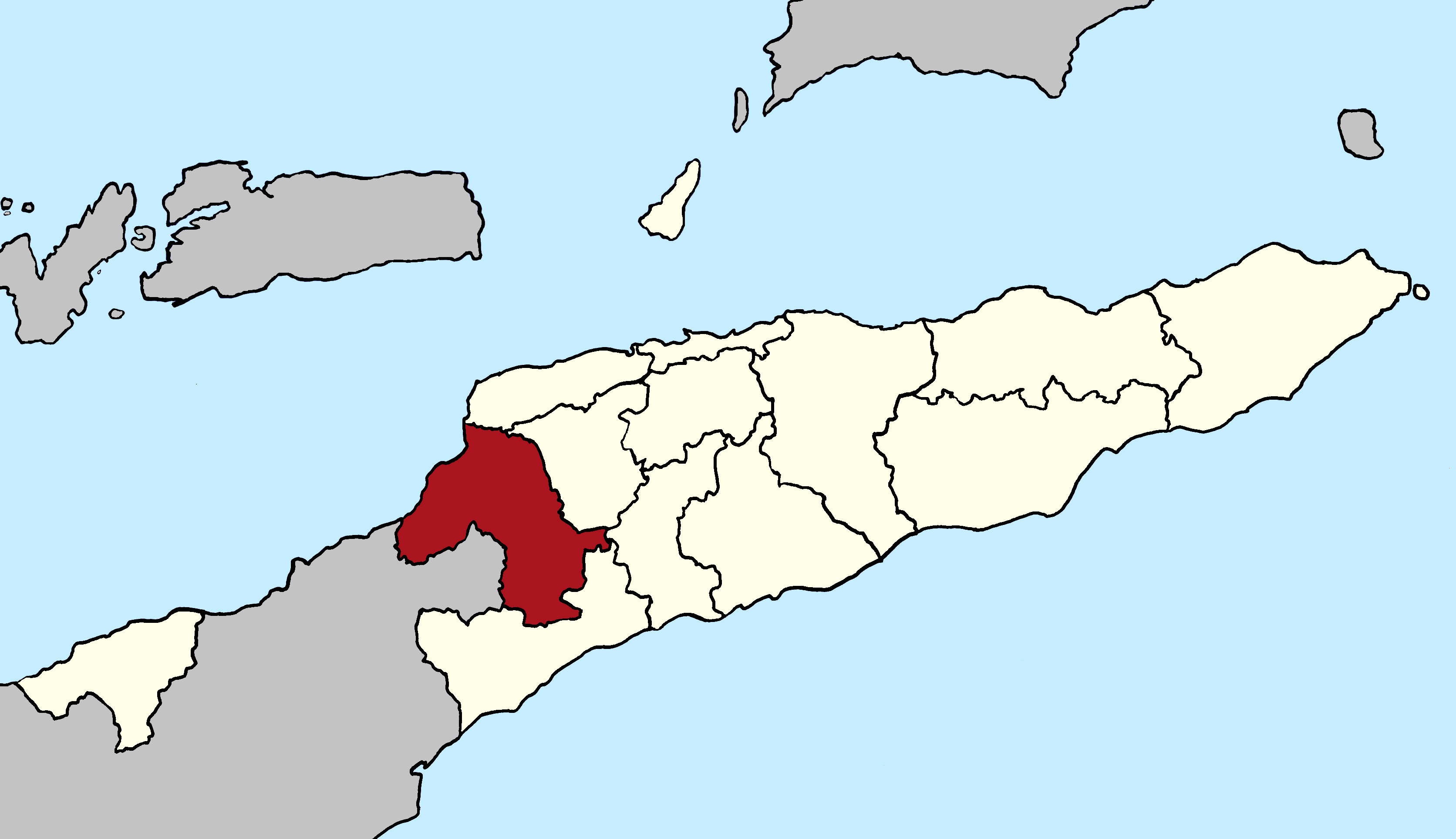 Locator map of Bobonaro municipality since 2015, East Timor